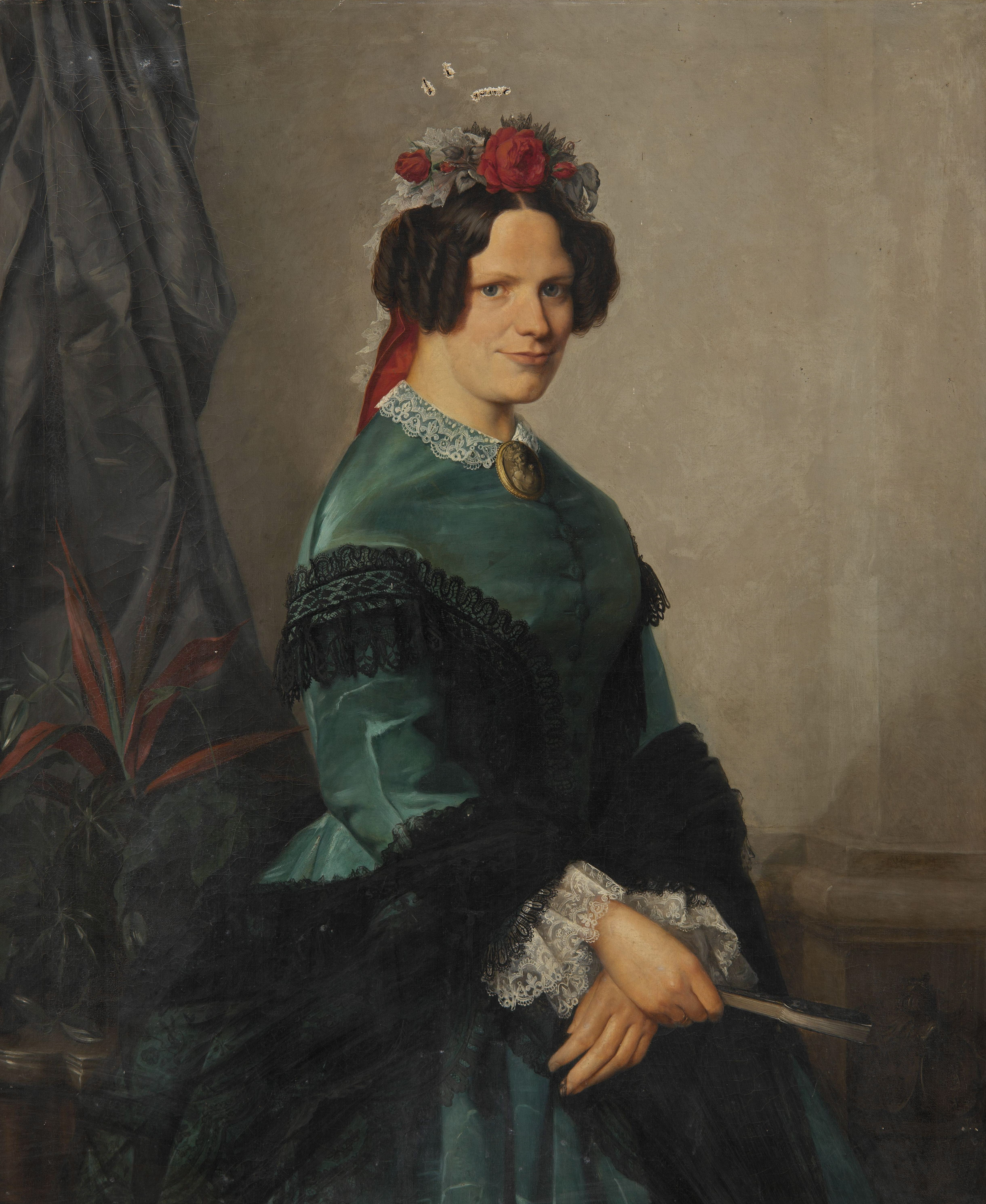 Valentine du Trieu de Terdonck, echtgenote van François de Cannart d'Hamale